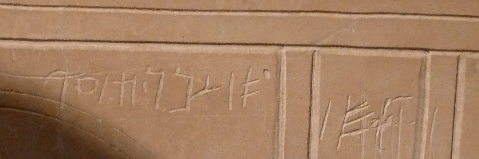 Ossuary of "Jesus son of Joseph", (not the one found in Talpiyot) in Jerusalem, Ossuary from the 1st Century. The Israel Museum, jerusalem